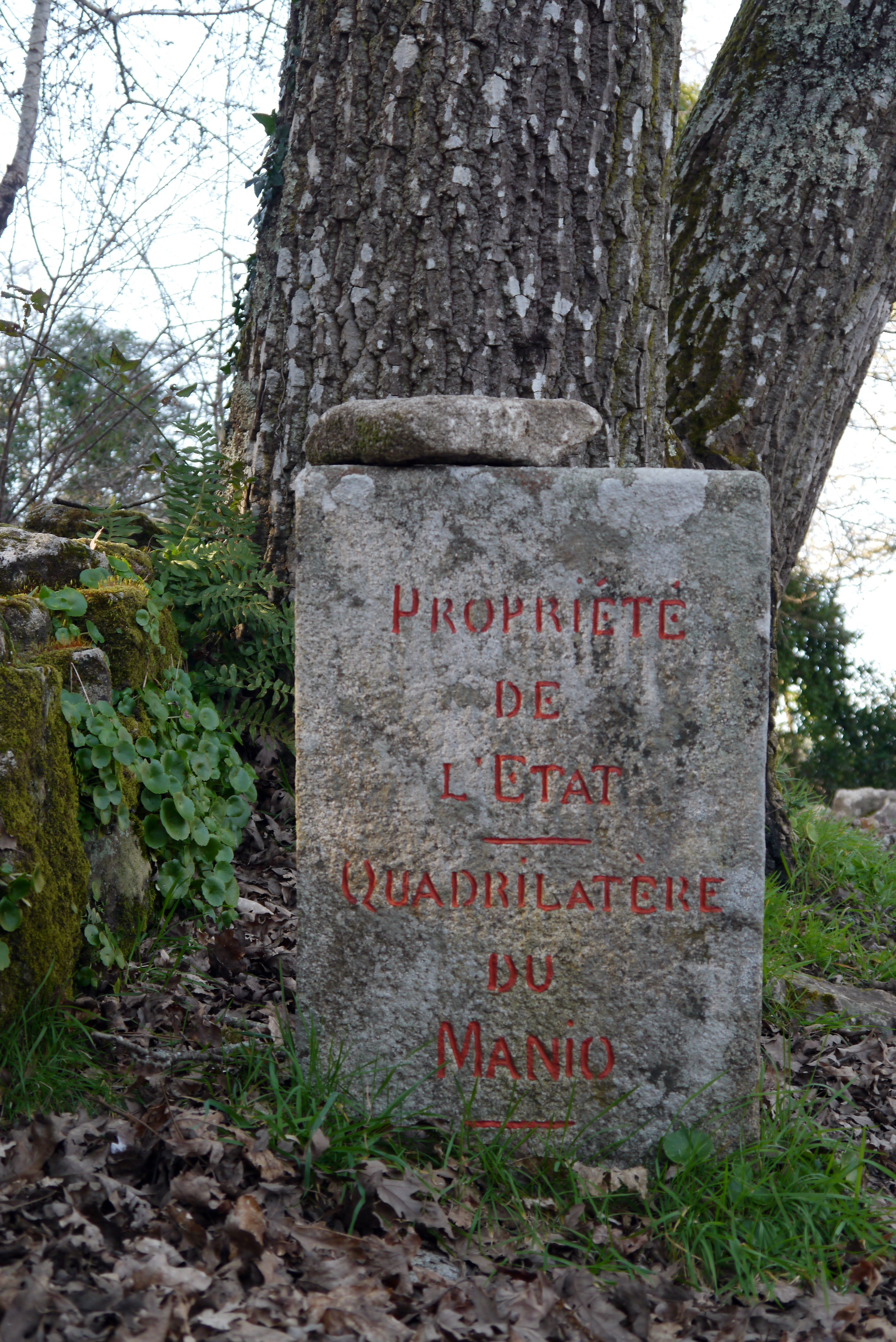 Locmariaquer, France. Quadrilatère du Manio: marker. center: Propriété de l’Etat - Quadrilatère du Manio - in red